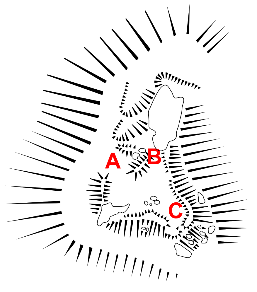 After Mark Bowden's "Military Defences 1540-1951: Earthwork Sites and Minor Features"